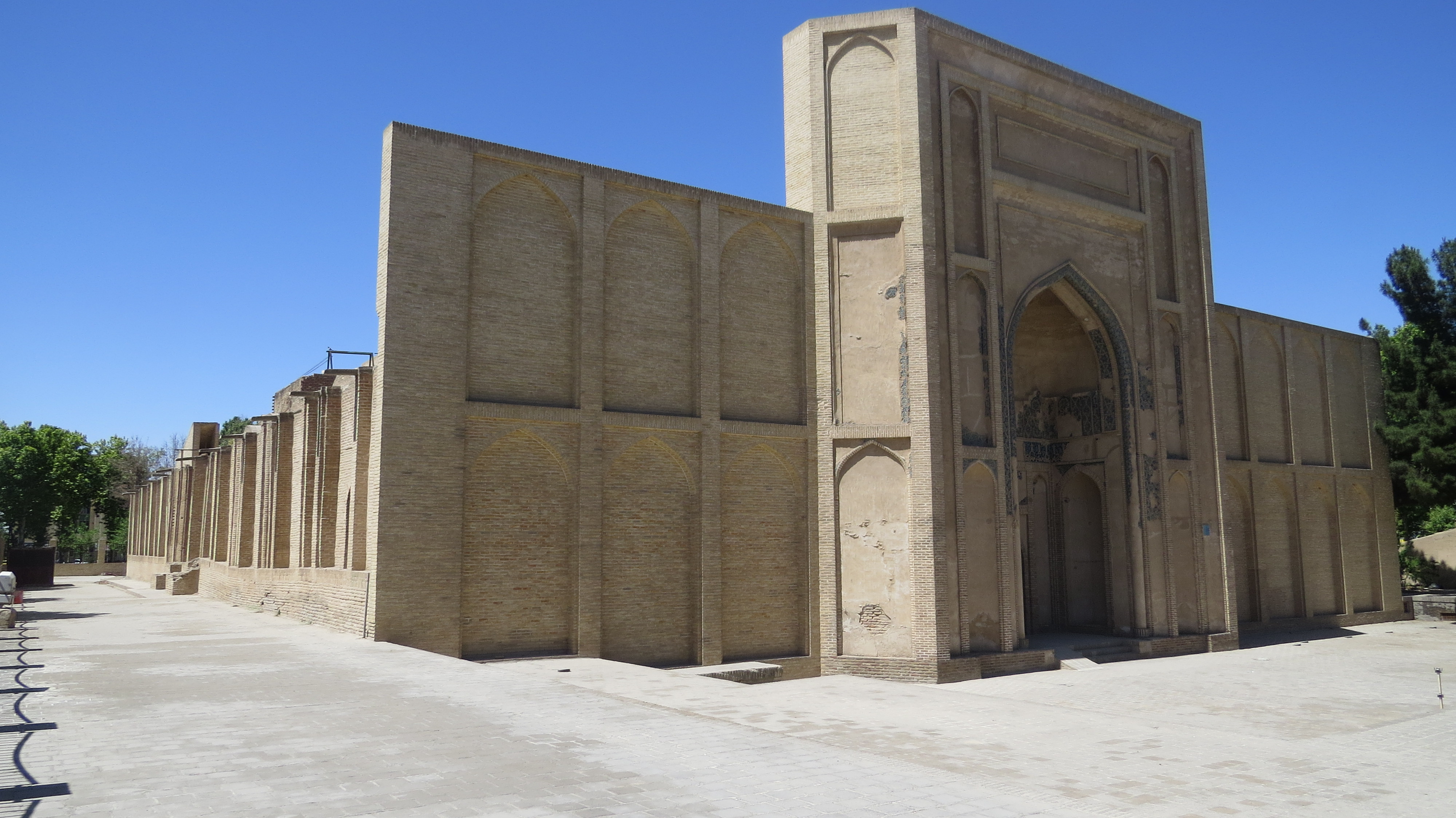 Exterior view of Masjed-e Jome of Varamin taken from northwest.